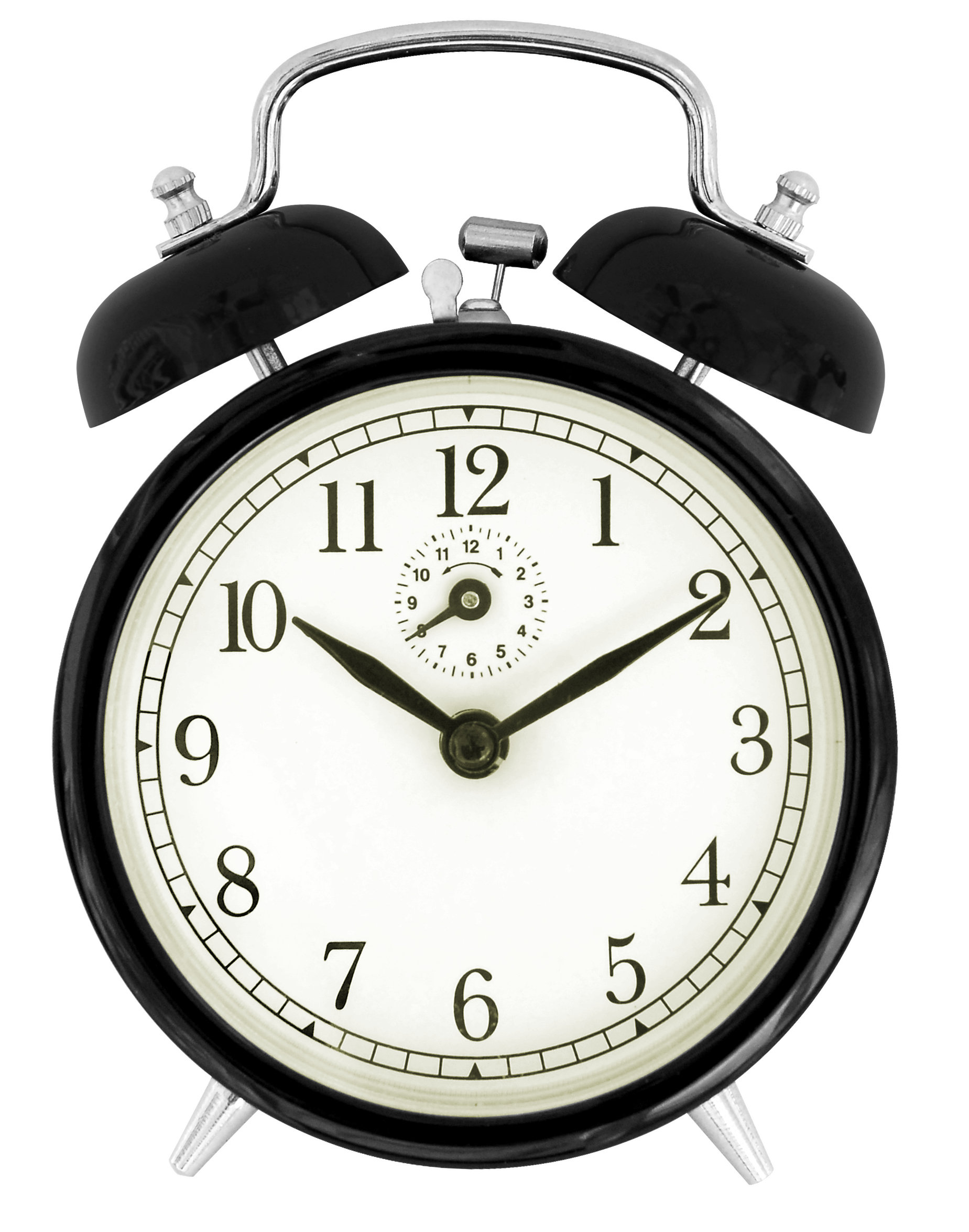 The face of a black windup alarm clock